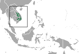 Yellow-cheeked Gibbon (Nomascus gabriellae) range